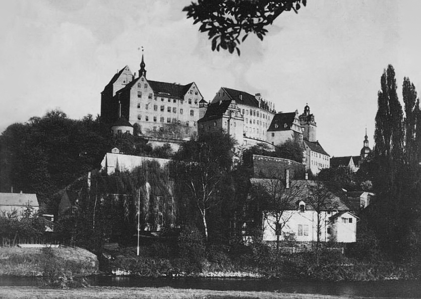 Colditz Castle circa World War II taken by a GI.